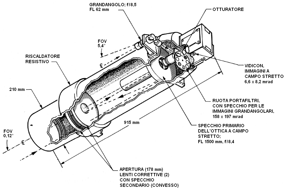 Cutaway view of one Mariner 10 television camera.